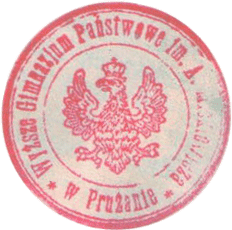 Seal of the Adam Mickiewicz gimnazium in Pruzhany, Second Polish Republic